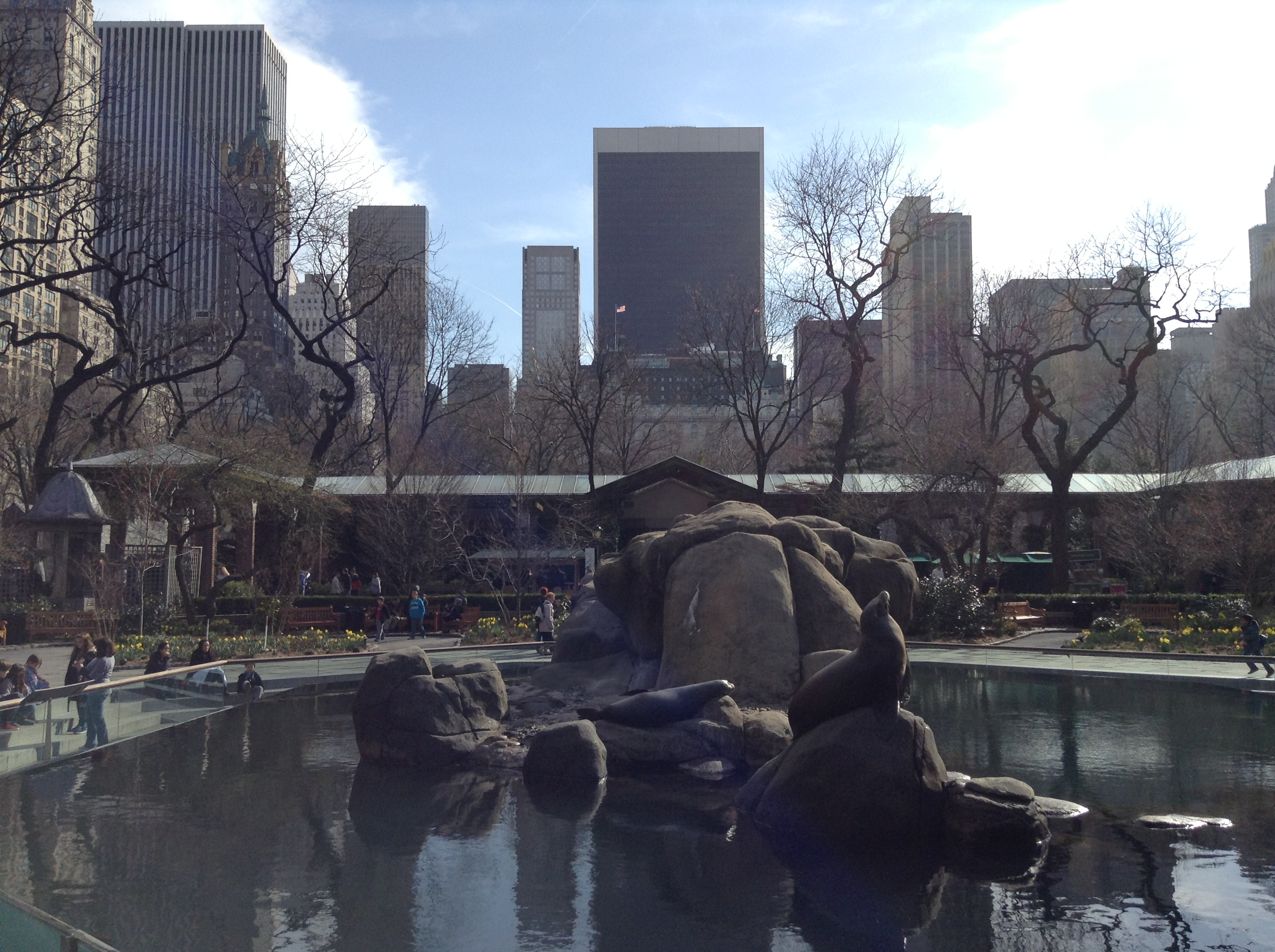 Sea lions relaxing at the Central Park Zoo in New York City